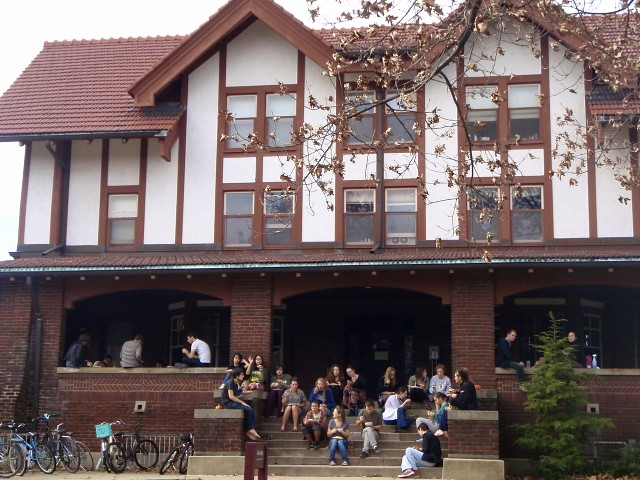 A picture of Keep Cottage, a victorian tudor-style mansion in Oberlin, Ohio. It is currently part of OSCA, the nation's second largest housing and dining student cooperative.